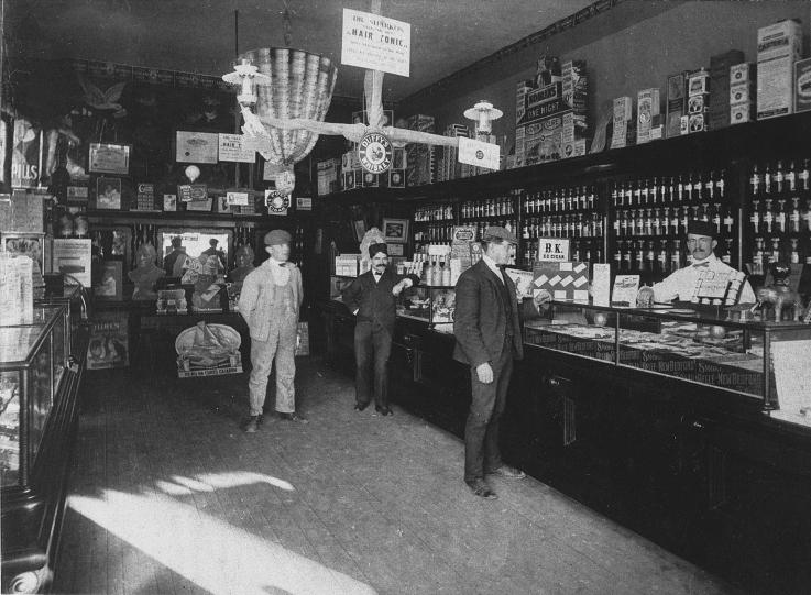 Photograph, Interior of a general store, St. Hyacinthe, QC, about 1900, Anonymous, Silver salts on paper mounted on card, 12 x 17 cm